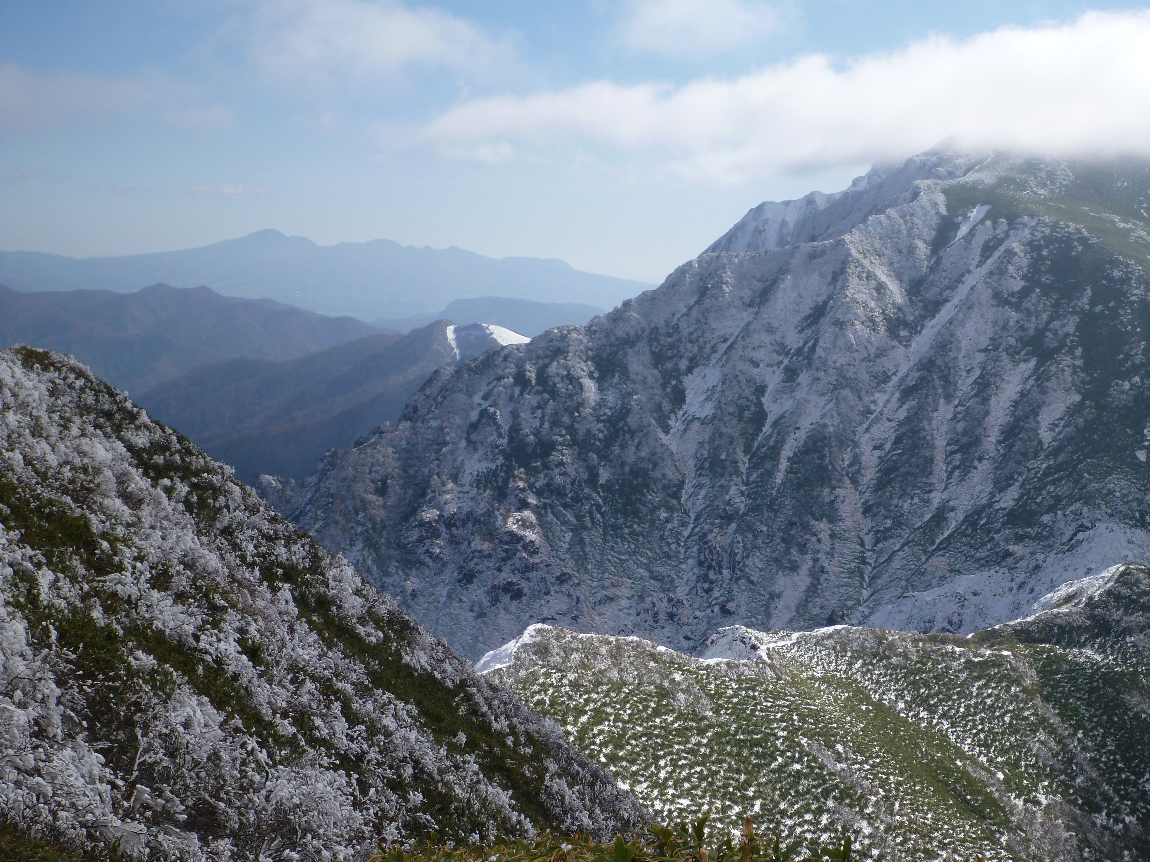 Mt. Ichinokura (Ichinokuradake) seen from the NNW, in Gunma Prefecture, Japan. Taken from Mt. Buno (Bunodake). Mt. Akagi in the background.